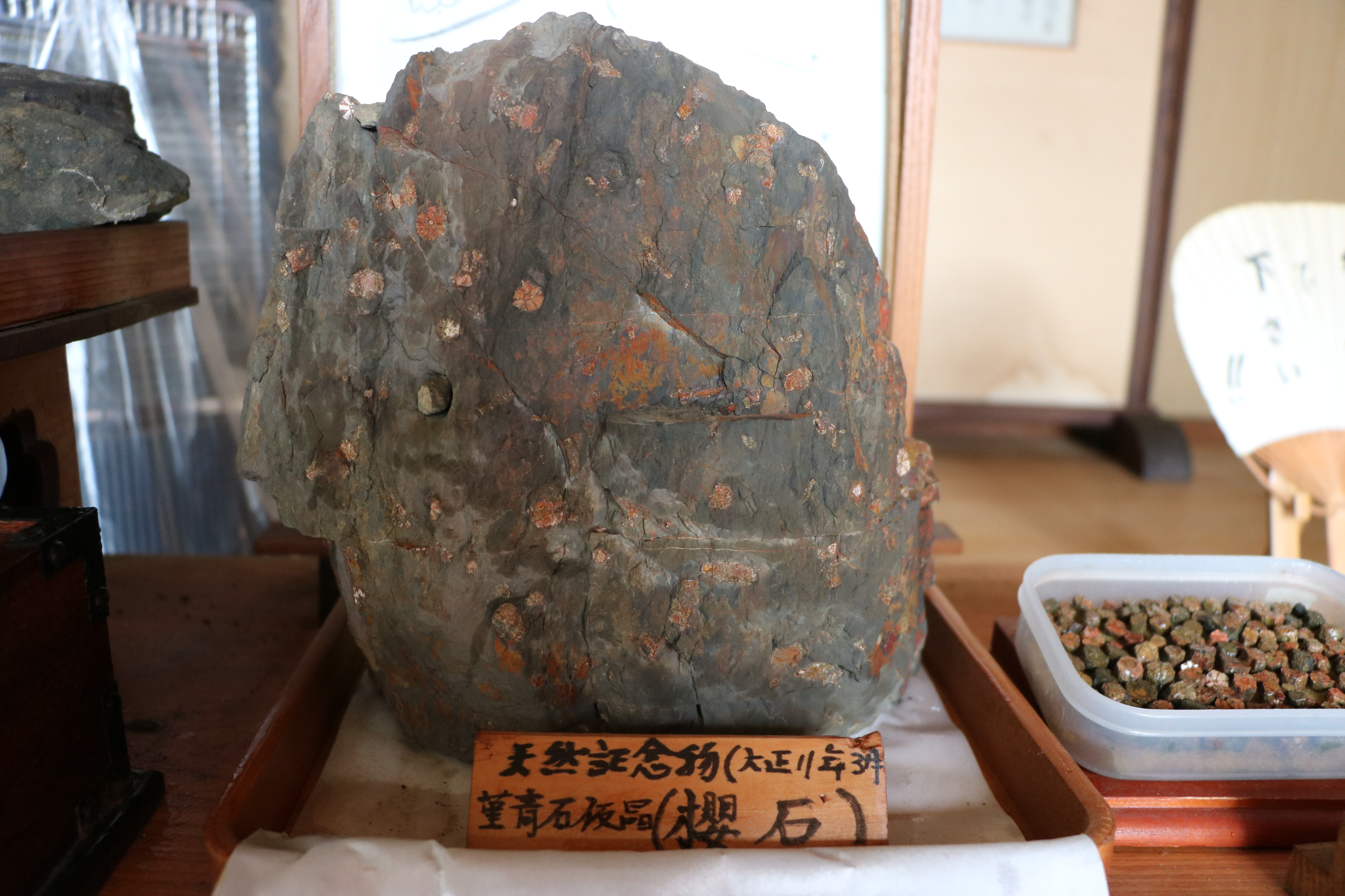 Cerasite owned by Sakura Tenmangu Shrine